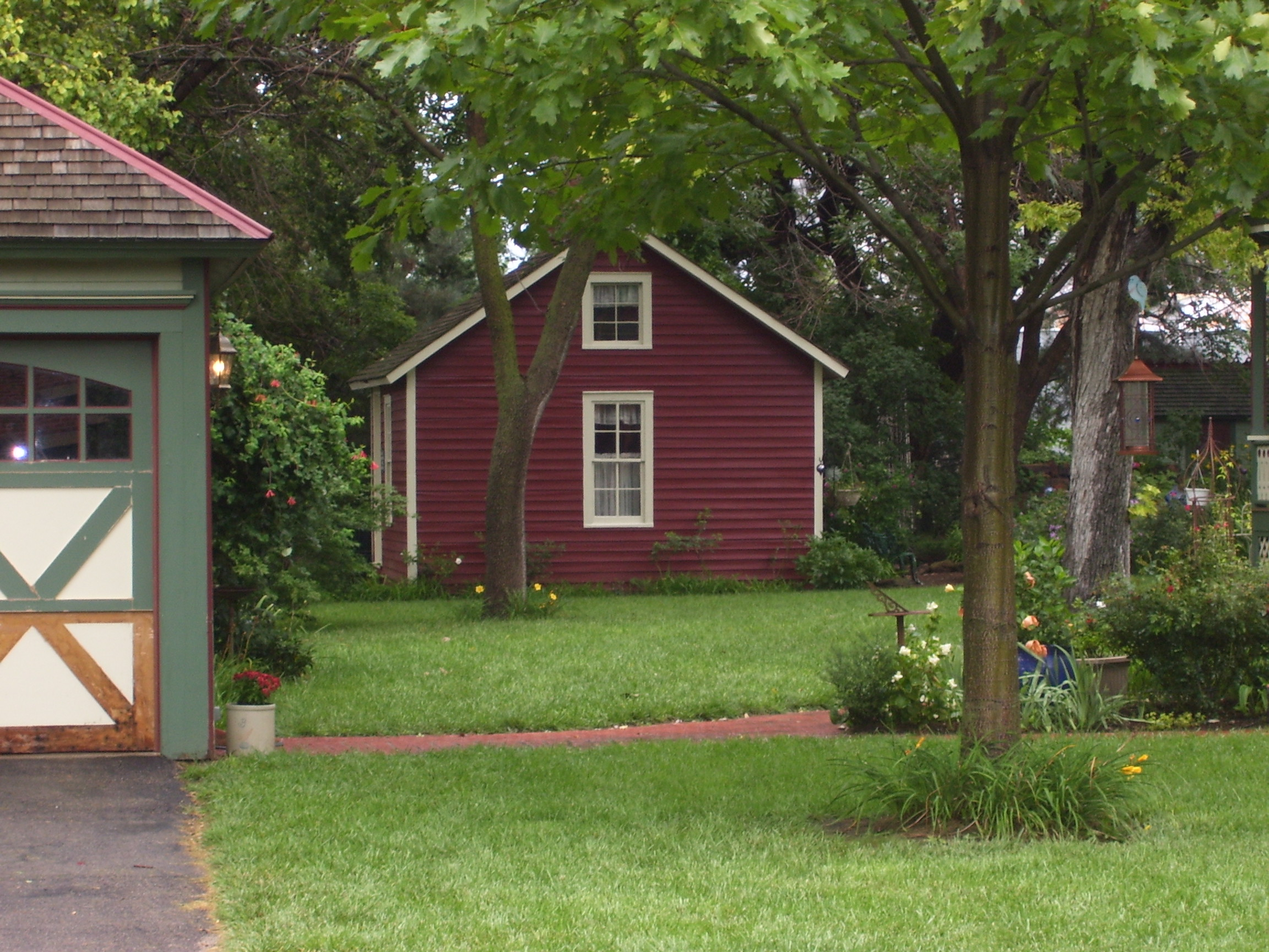 This is my photo of Hans Hanson's original 1871 wood frame cabin, where the Marquette, Kansas city charter was signed.